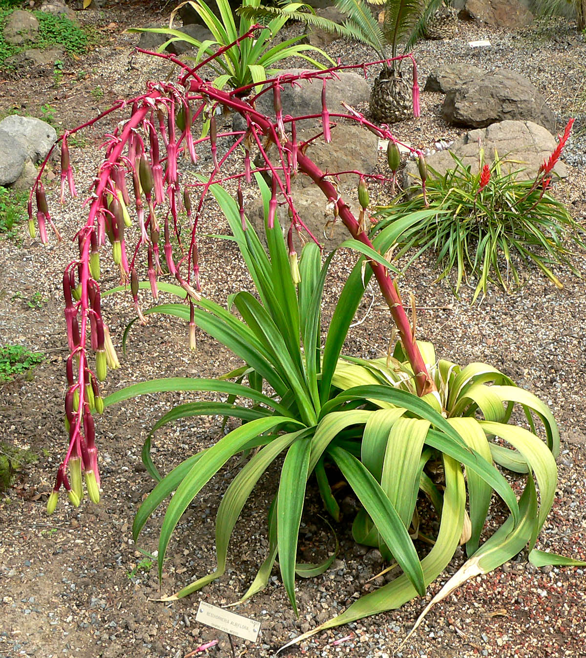 Photo of Beschorneria albiflora at the University of California Botanical Garden